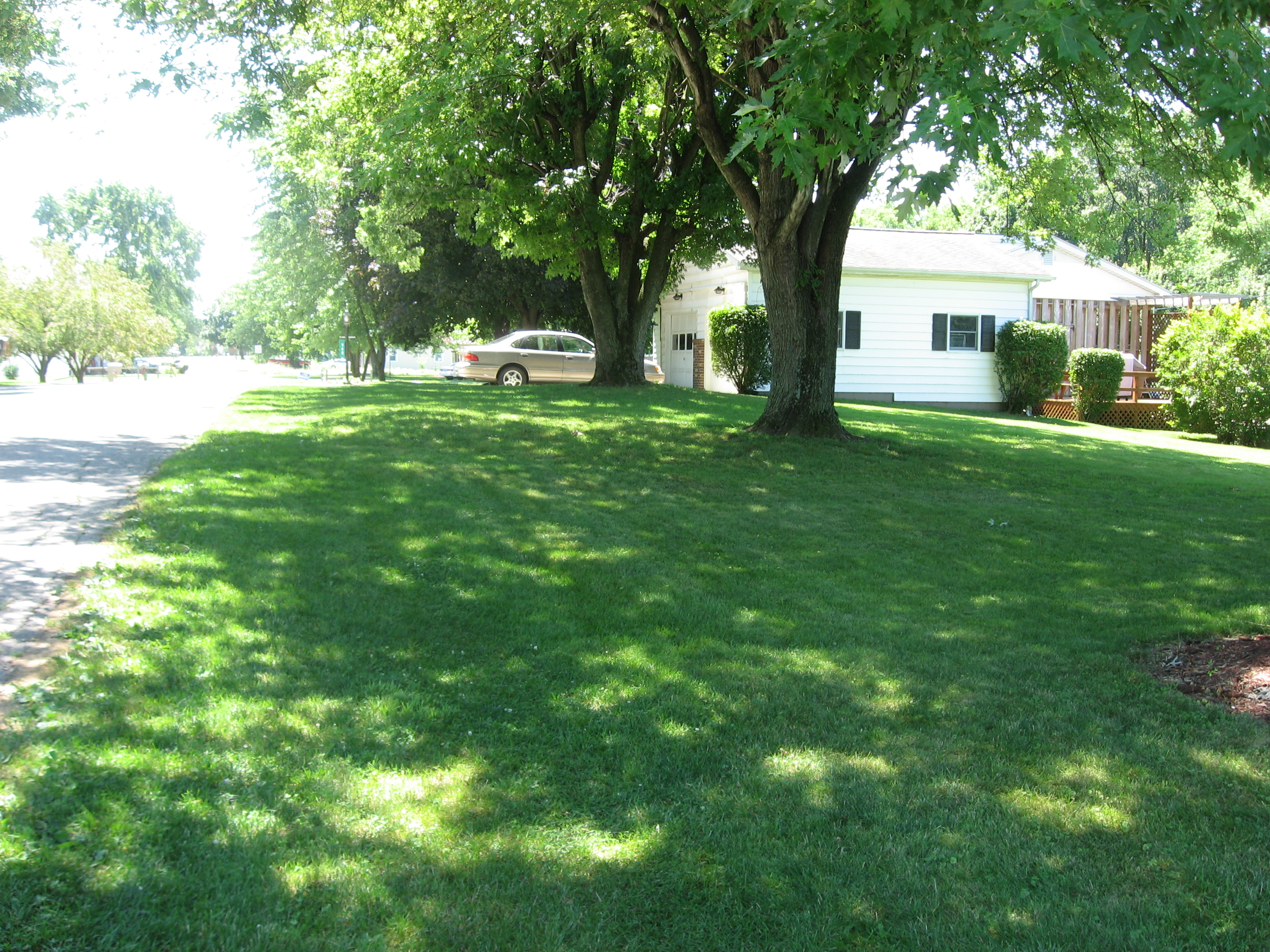 Northern side of the Adena Mound, the type site for the Adena culture. Although it was excavated and largely removed in 1901, the mound is still a valuable archaeological site, as part of the base remains. Located under the 900 block of Orange Street in northwestern Chillicothe, Ohio, United States, the mound is listed on the National Register of Historic Places.